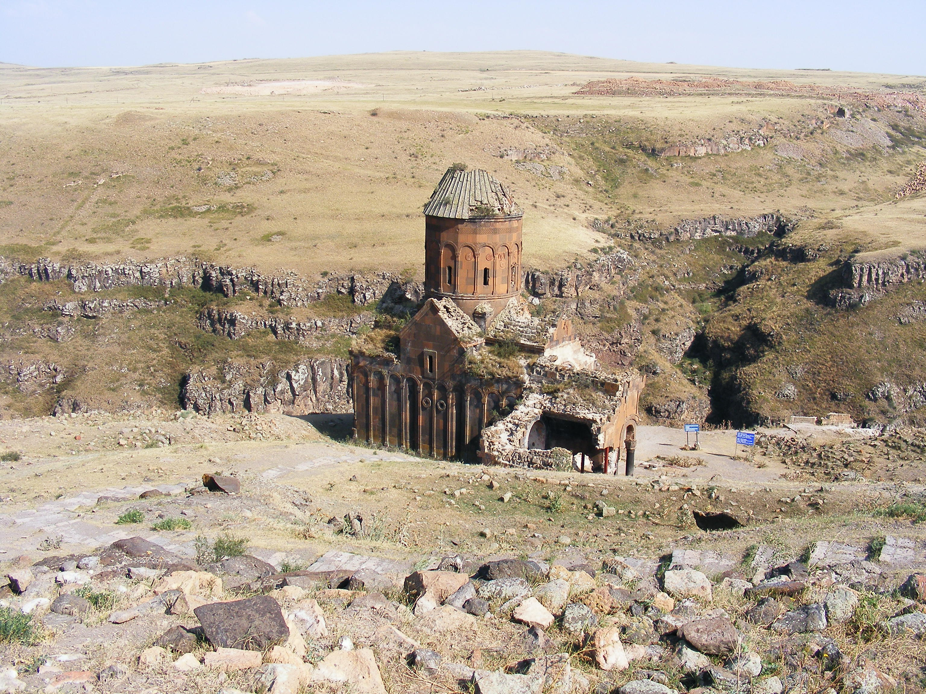 St. Gregory (Tigran Honents), Ani, eastern Turkey.